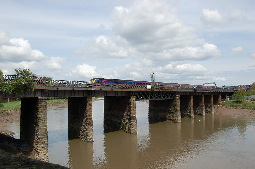 Category:Pictures of Newport The author has agreed to license his Newport pictures under the GFDL. ( mail sent November 10, 2006).